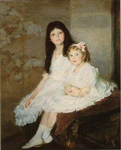 50. "Miss Ginnie and Polly" painting by Lydia Field Emmet (1866–1952) Two young girls sitting together